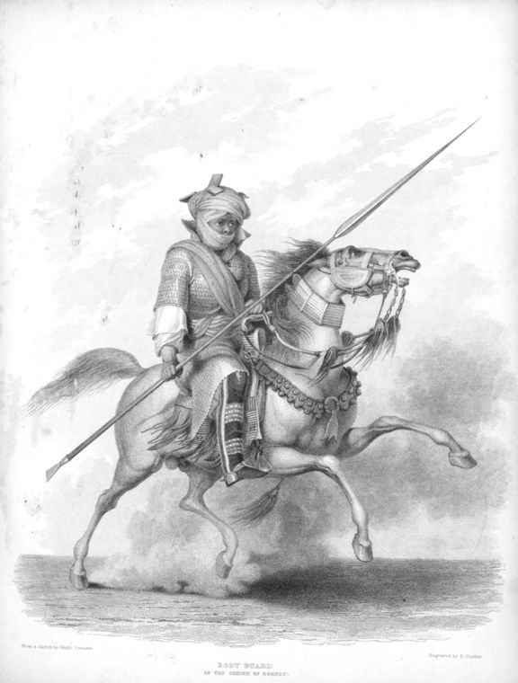 Body Guard of the Sheikh of Bornou. Creator Finden, Edward Francis, 1791-1857 -- Engraver Additional Name(s) Denham, Dixon, 1786-1828 -- Author Specific Material Type Printed text Item/Page/Plate opp. Pg. 64 Source Narrative of travels and discoveries in Northern and Central Africa, in the years 1822, 1823, and 1824. Vol I & II. Online version scanned by New York Public Library, Location Schomburg Center for Research in Black Culture / Manuscripts, Archives and Rare Books Division Catalog Call Number Sc Rare 916.7-D (Denham, D. Narrative of travels and discoveries in Northern and Central Africa) Digital ID 1245770 Record ID 210233 Digital Item Published 7-18-2005; updated 10-3-2007